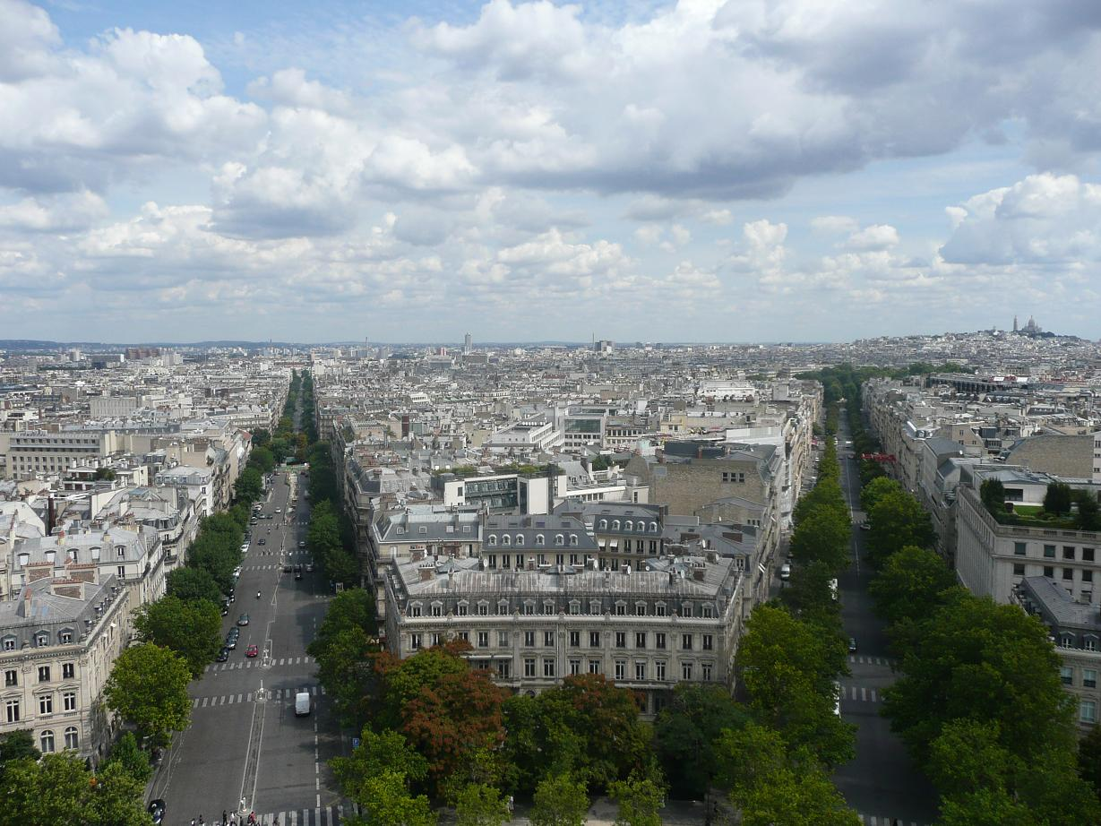 Paris from the Arc de Triomphe